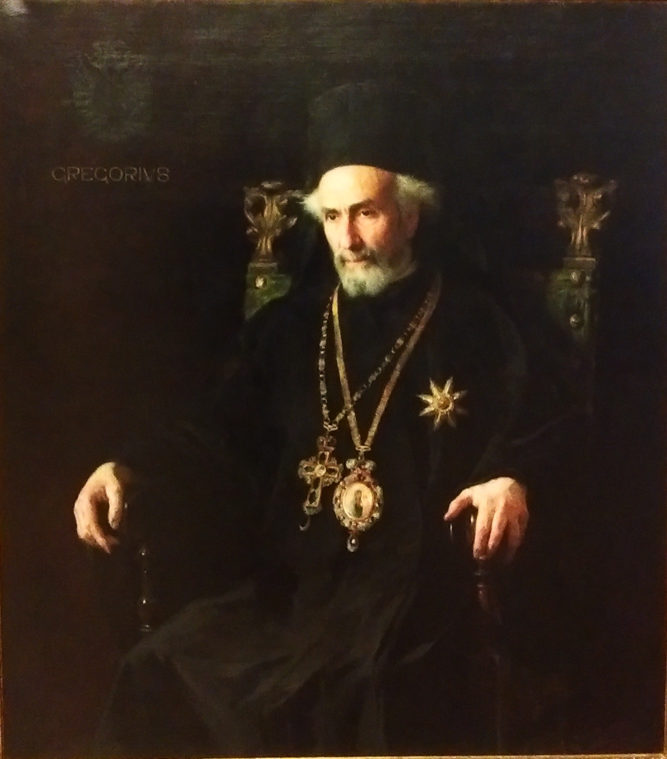 Portrait of Mitropolite Gregory of Dorostol and Cherven, Fülöp László von Lombos, 1895